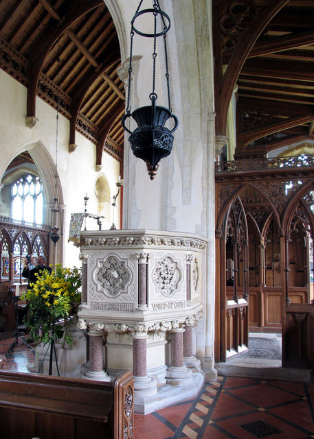 St Withburga, Holkham, Norfolk - Interior with pulpit